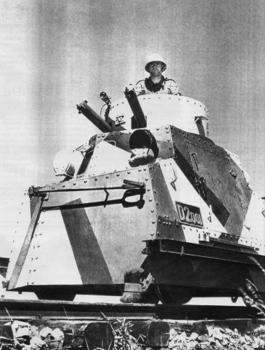 armored trolley Tatra T-18